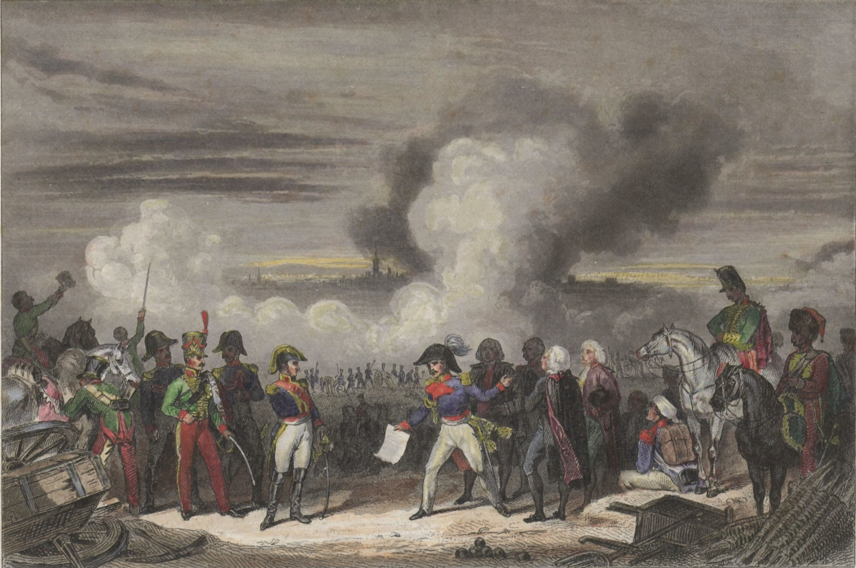 Siege of the Swedish town of Stralsund by French troops on 20 August 1807